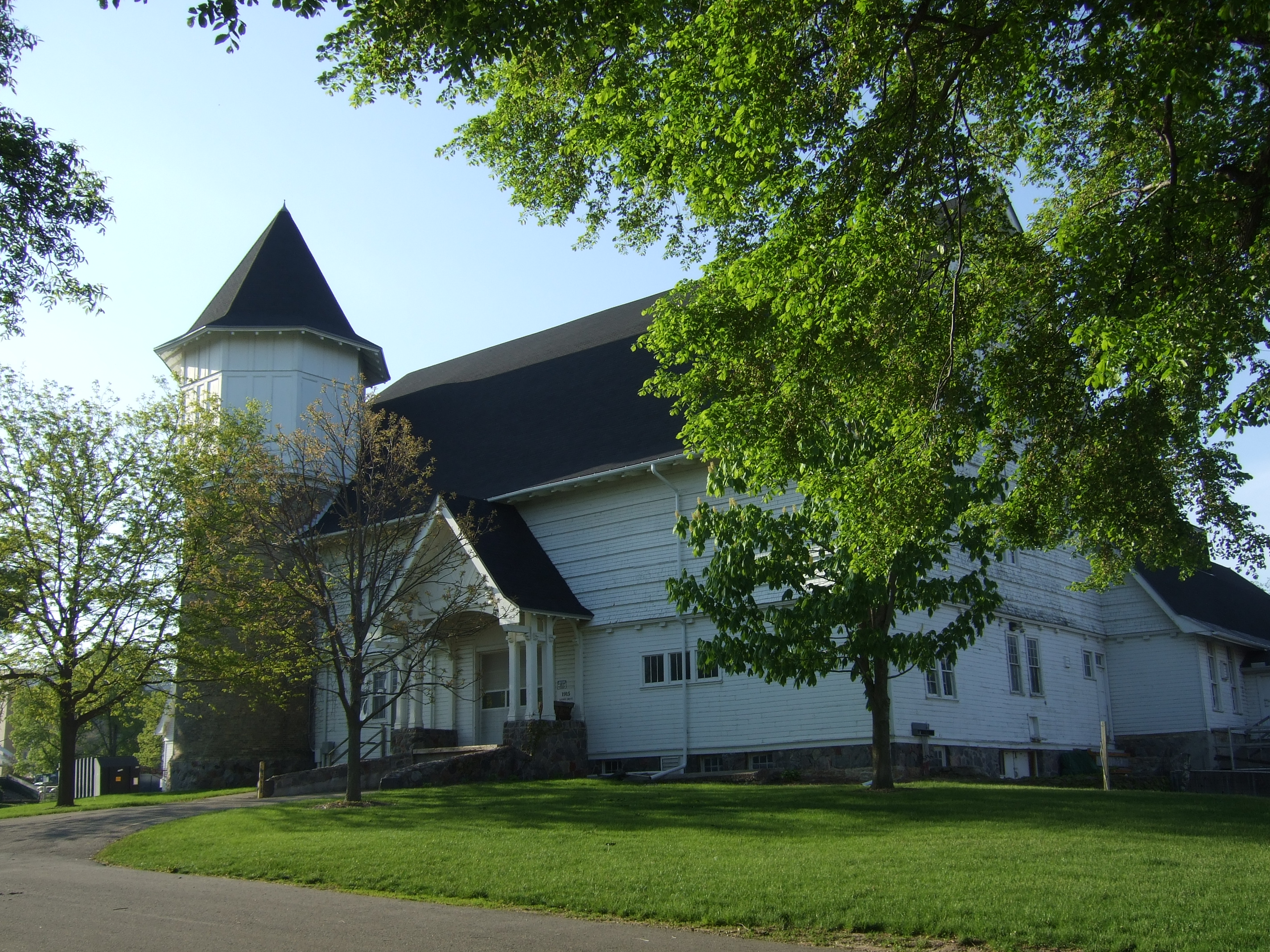 The University of Wisconsin Dairy Barn was added to the National Register of Historic Places in 2002 and designated a National Historic Landmark in 2005 because of the contributions made here in the fields of science, agriculture, health, and nutrition in the years 1907 to 1911.